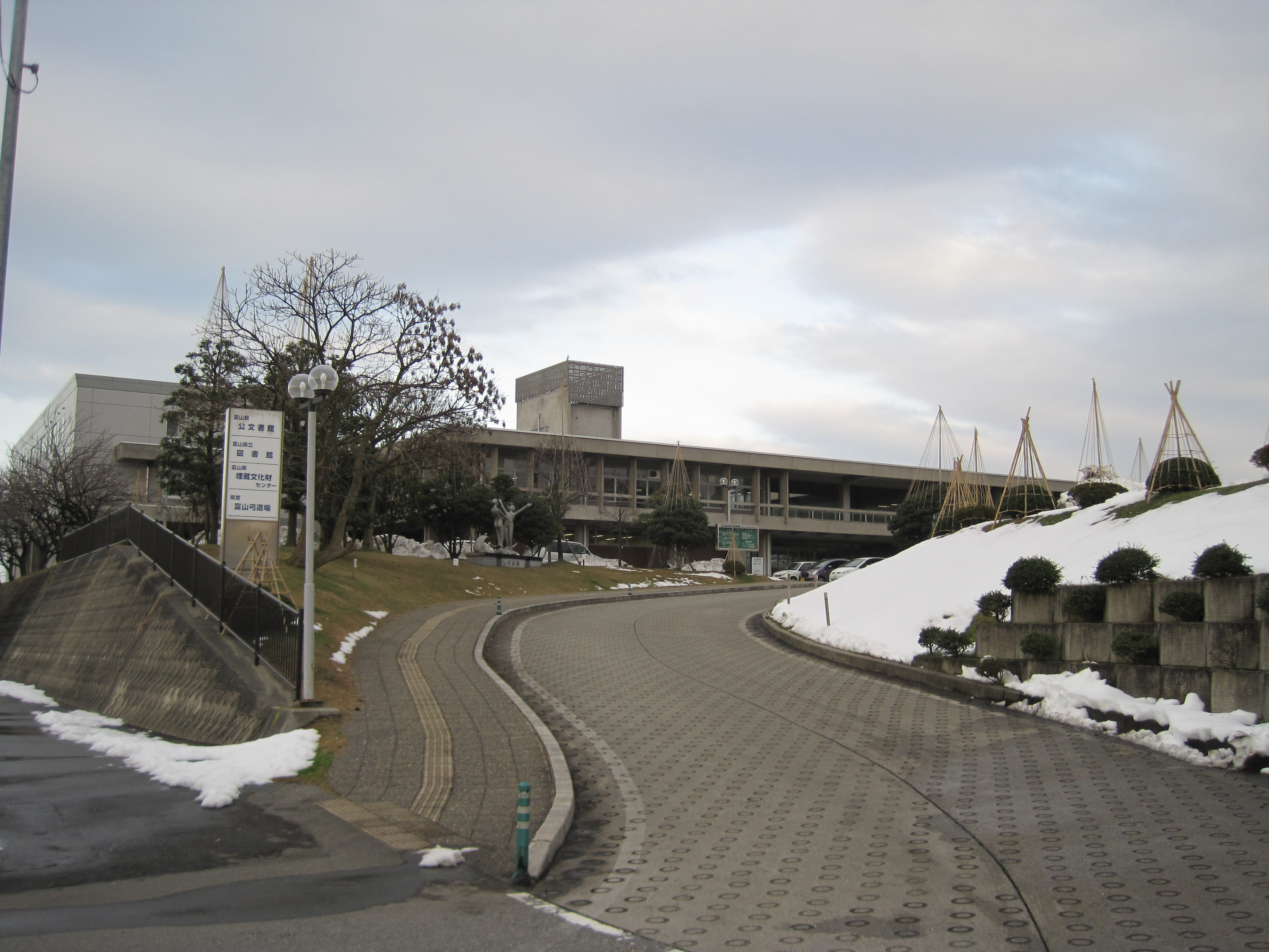 Toyama Prefectural Library(Toyama city, Toyama prefecture)